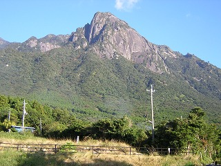 Mount Motchomu (Motchomudake) as seen from the southwest in Yakushima.